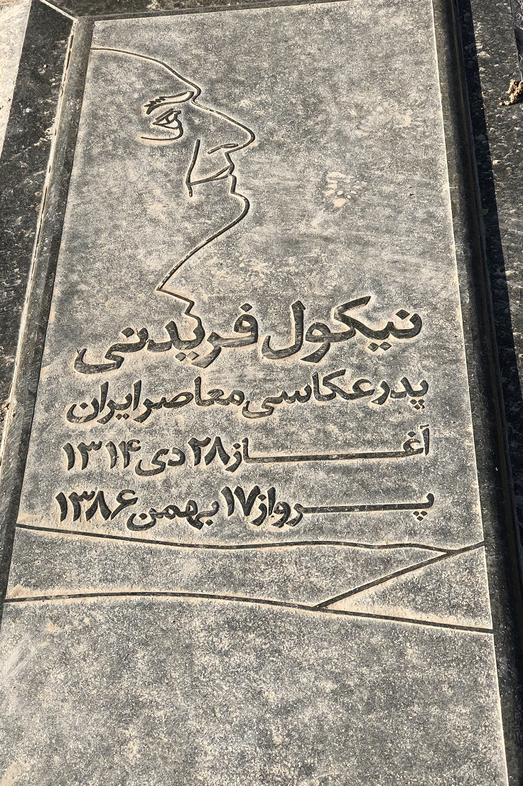 Beheshte Zahra Cemetery